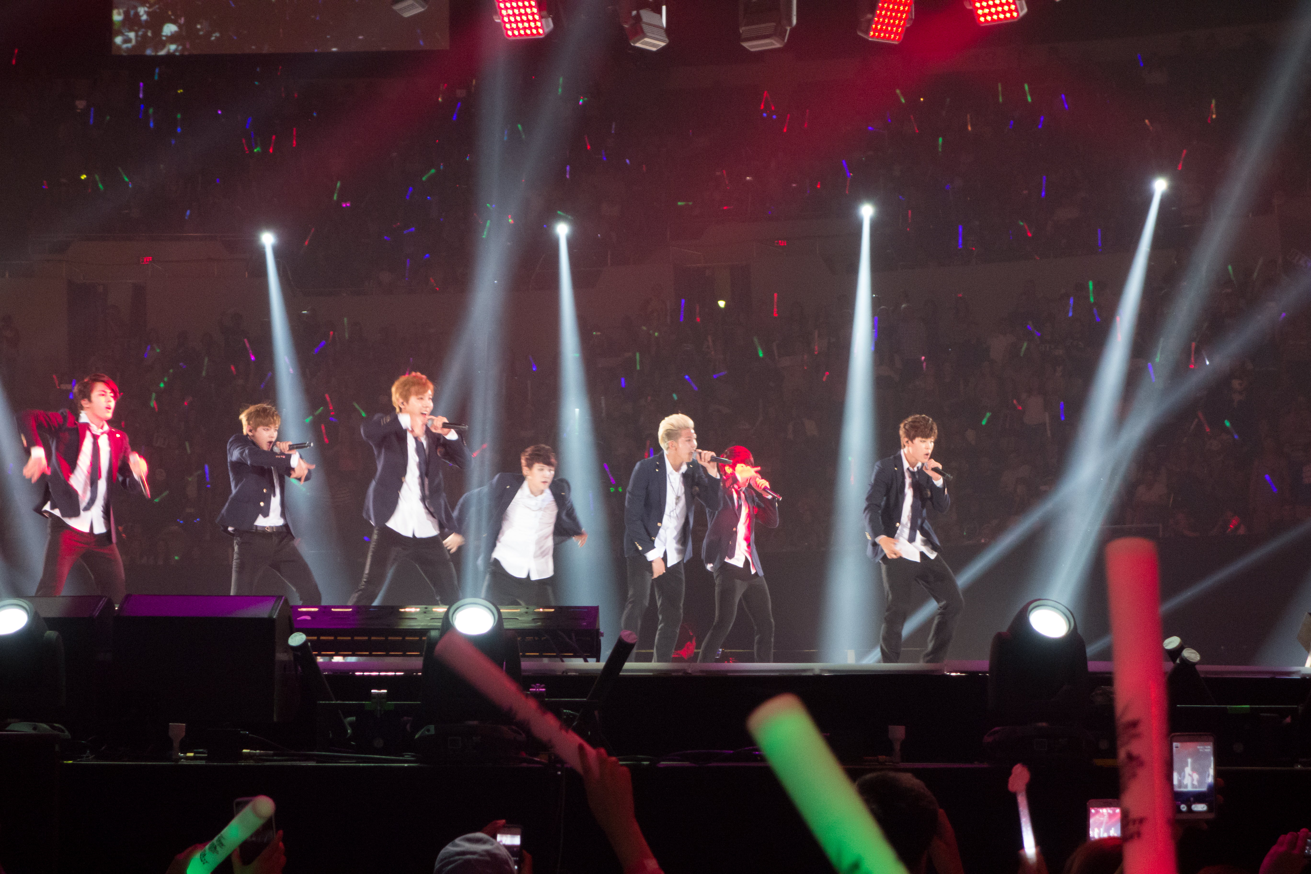 BTS performing at KCON 2014, 10 August 2014